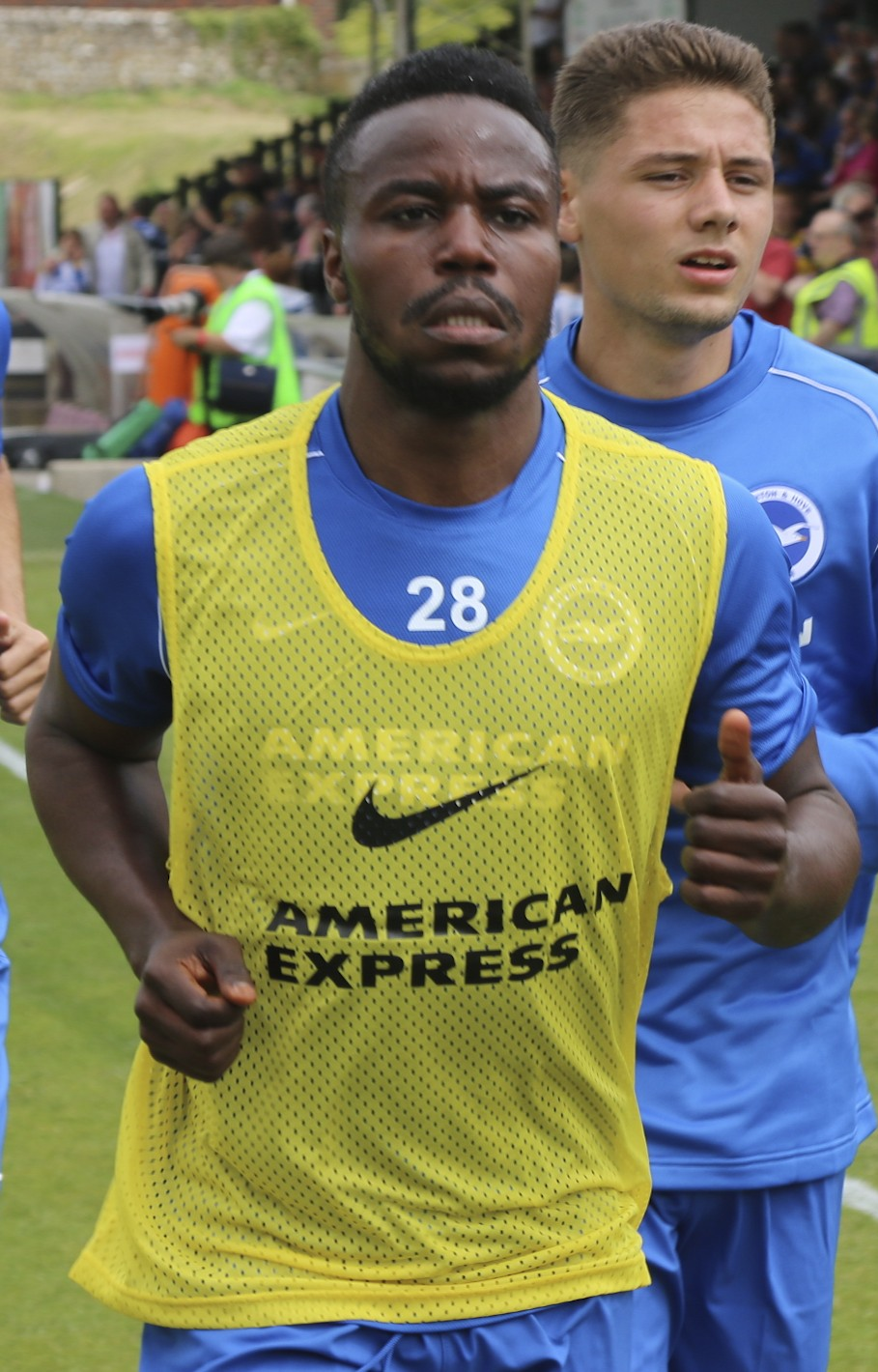 Lewes v BHA pre season July 5th 2014 172